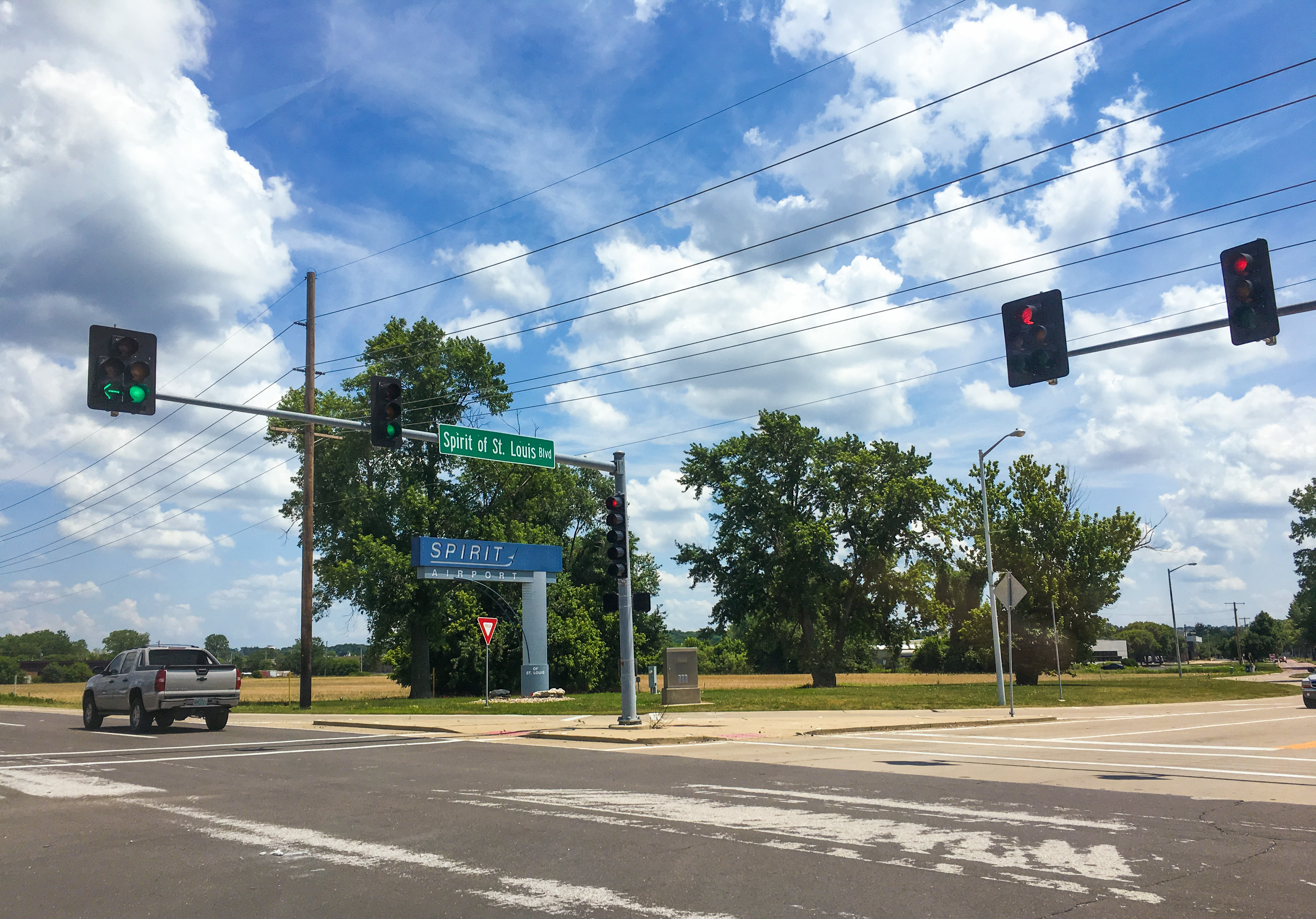 Sign to Spirit of St. Louis Airport